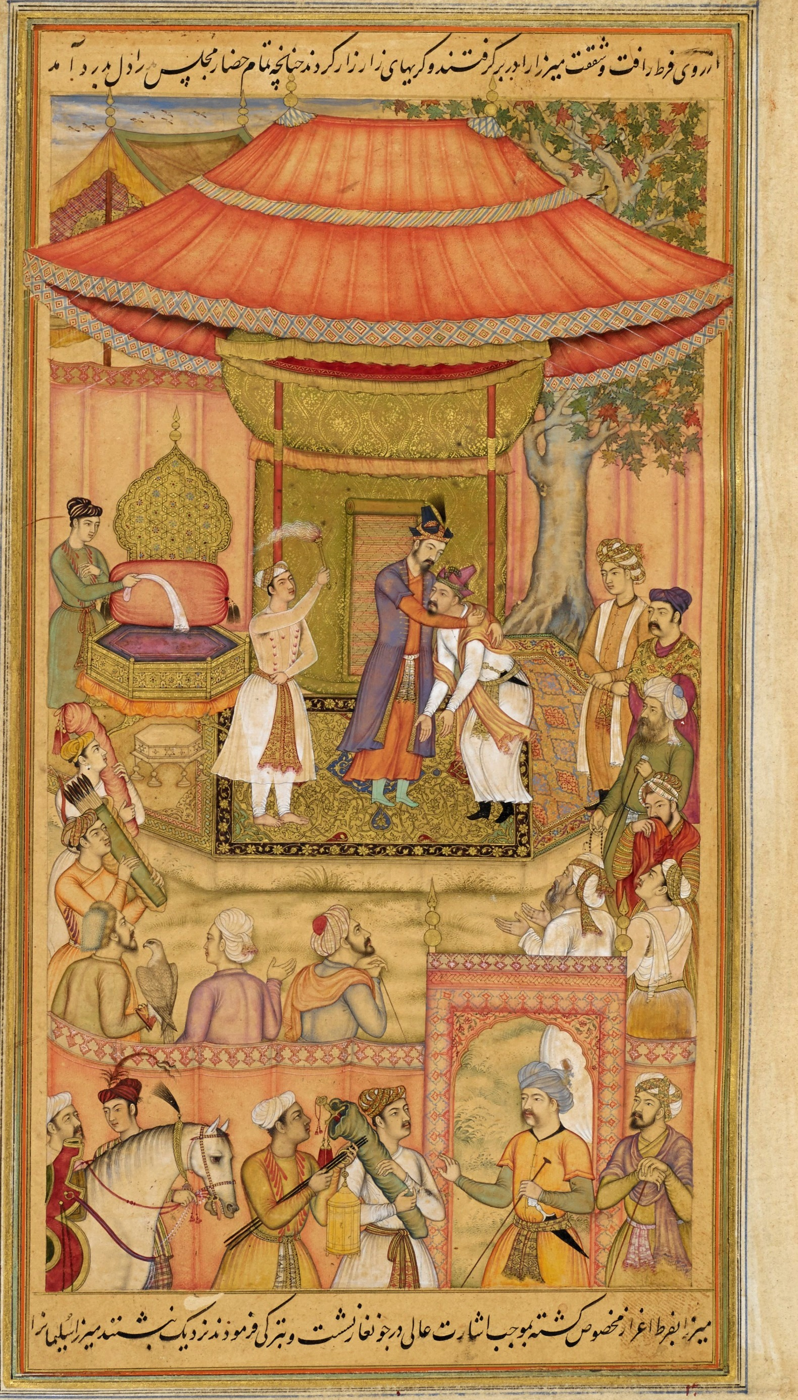 Manohar. Mirza Kamran submits to Humayun. Akbarnama, 1602-3, fol. 129r, British Library. Or.12988